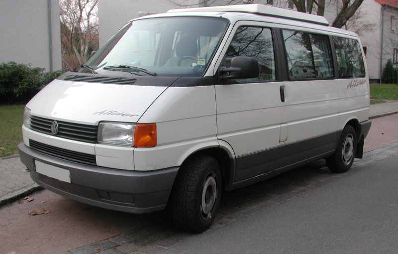 Volkswagen Eurovan T4a Multivan Allstar Early 1990s VW Multivan Allstar. This type of vehicle was called "VW Eurovan" in the United States.